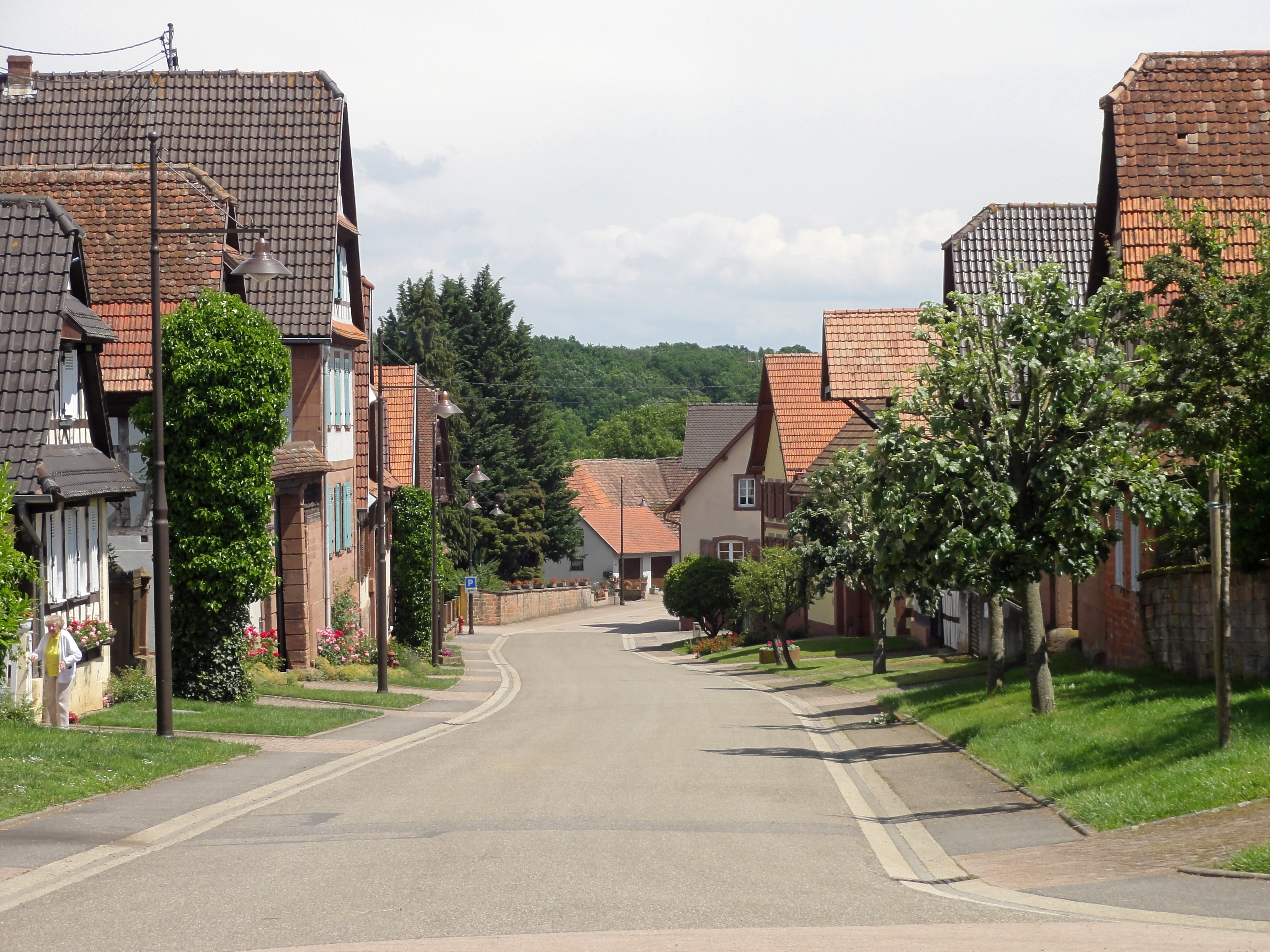 Alsace, Bas-Rhin, Geiswiller, Rue Principale.